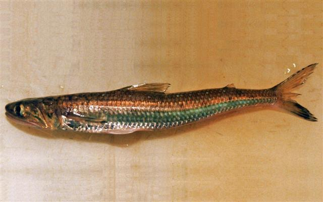 Saurida undosquamis, Location: South Africa, Durban